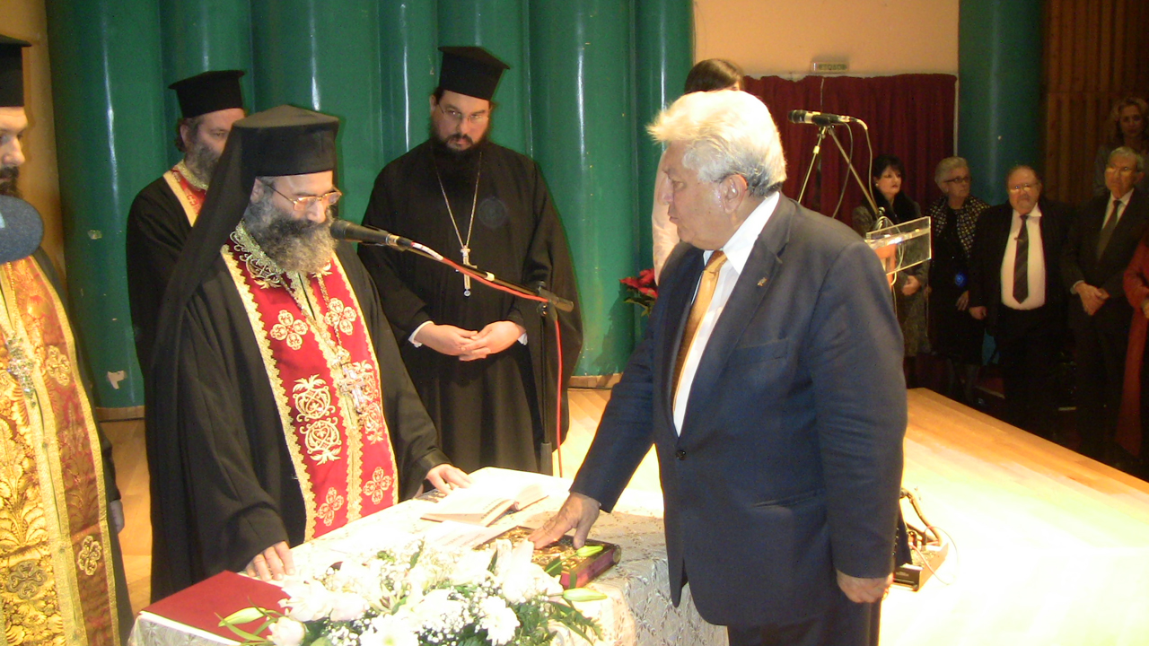 Ορκομωσία Ξύδη